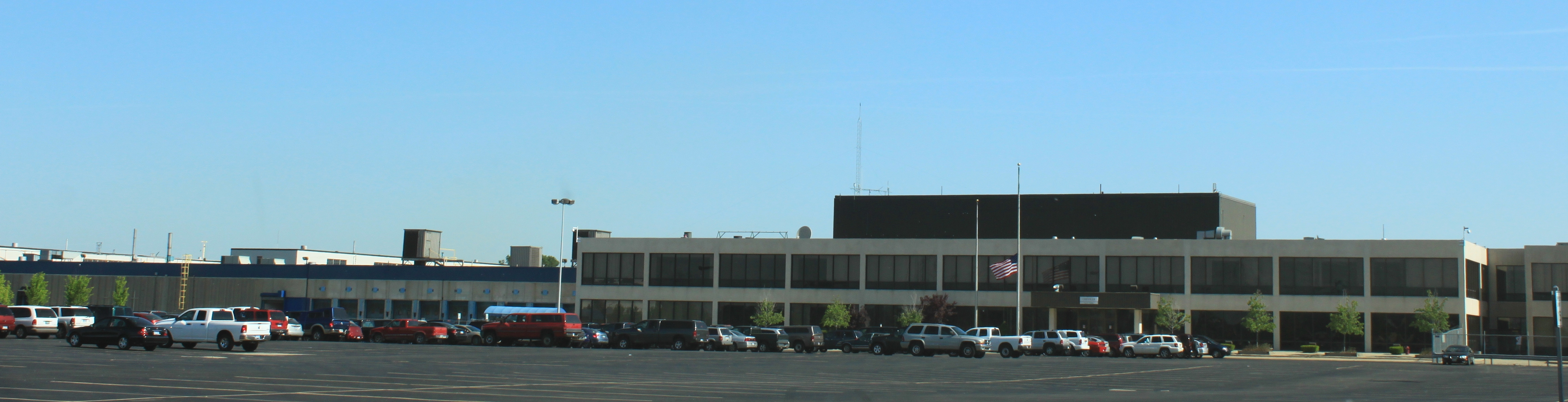 Chrysler Trenton Engine Plant Complex, 2000 Van Horn Road, Trenton, Michigan